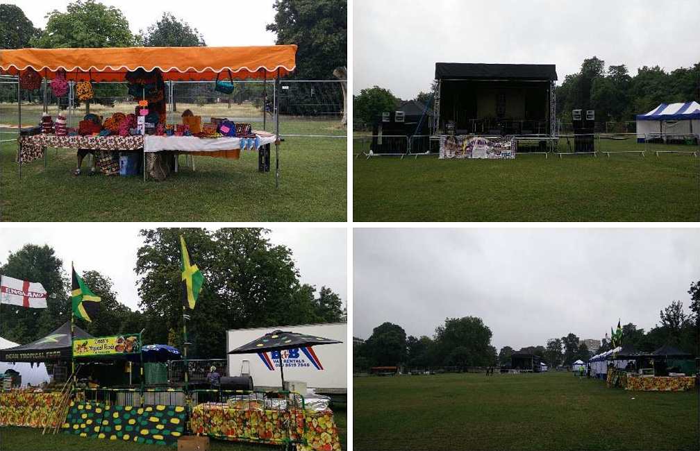 Yoruba Arts Festival, London, Clissold park, 2015